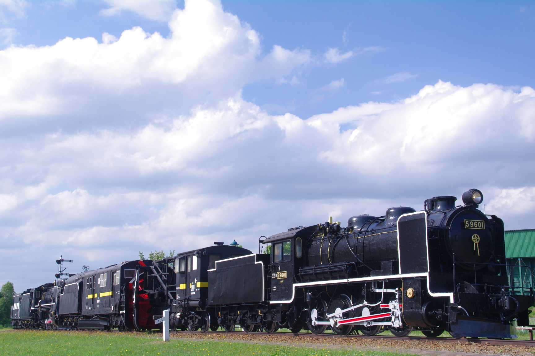 The Kimaroki trains (59601 + KI911 + D51 398+ KI604 + YO4566) in Nayoro city, Hokkaido.